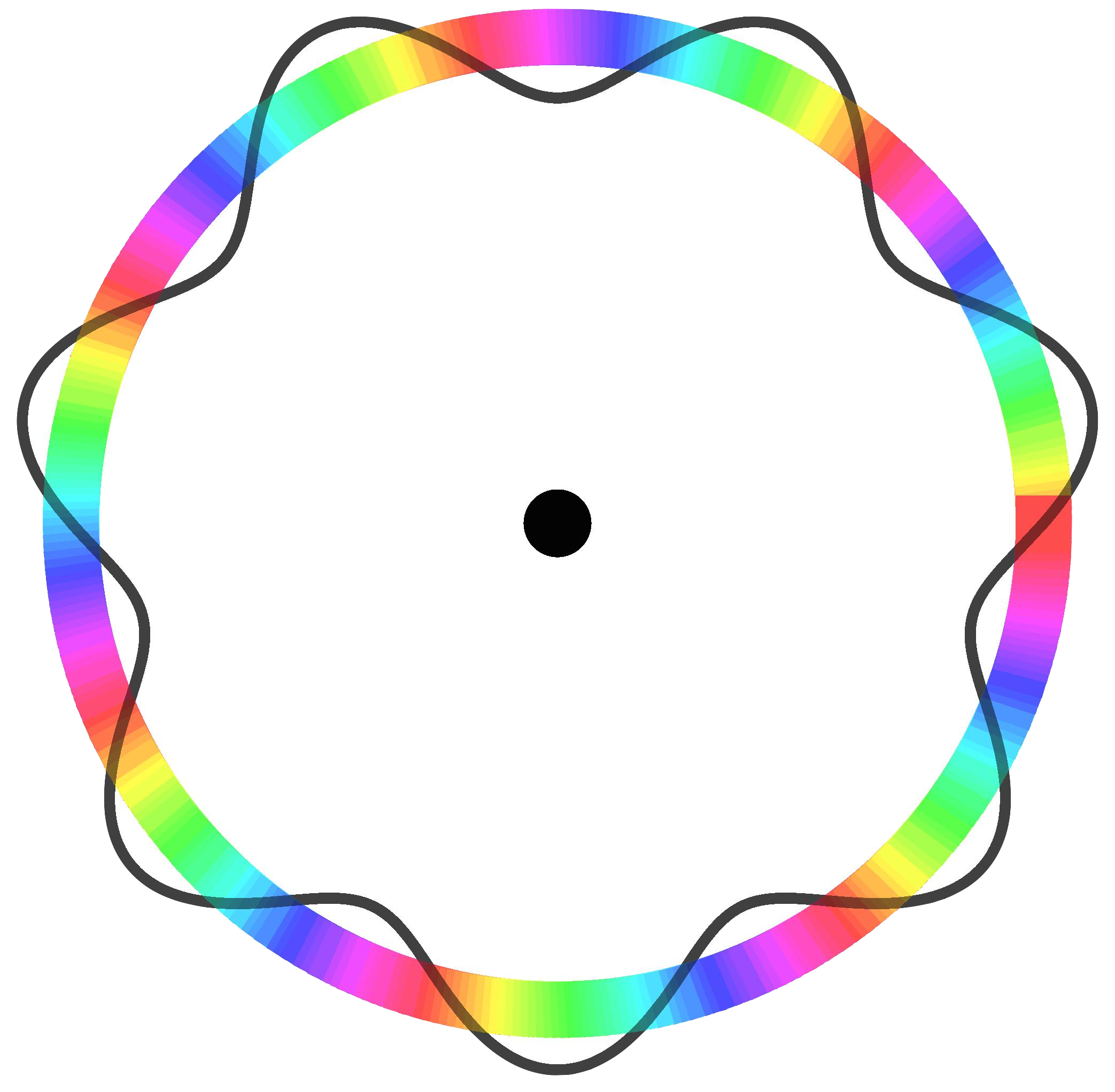 Two representations of a hydrogenic de-Broglie wave; the ring represents the electron's phase as a color, the wavy line shows the phase using a polar plot of a sinus curve. (simple conversion of Kuiper's jpg image into png)